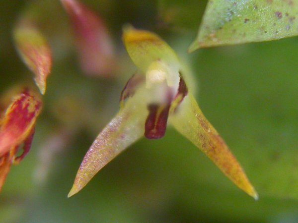 Anathallis